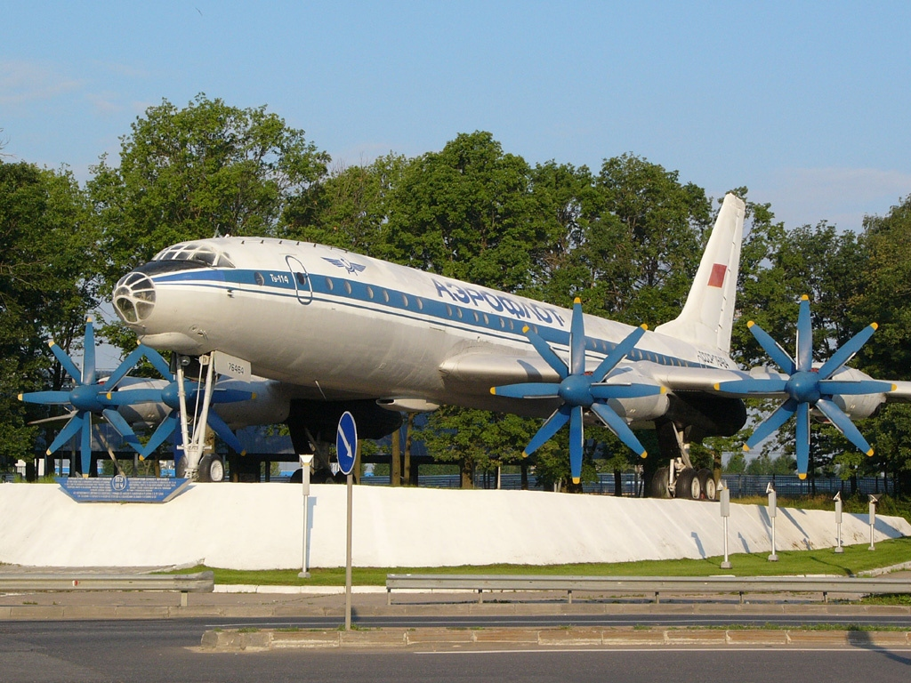 Morning.